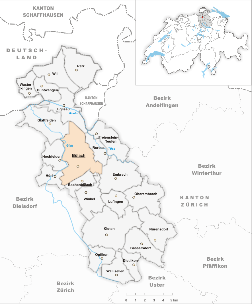 Municipality Bülach